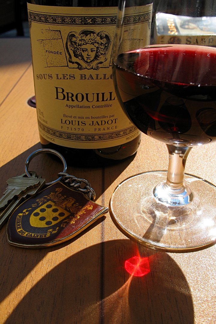 Bottle of Louis Jadot Brouilly Cru Beaujolais wine made from the Gamay grape in France.